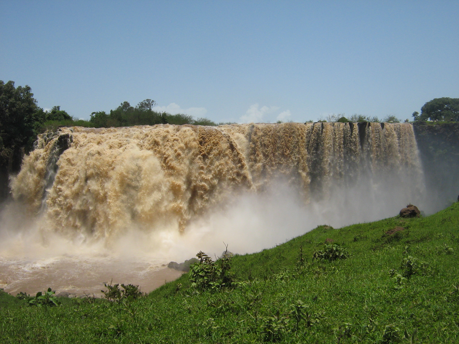 Blue Nile Falls, Bahir Dar, Ethiopia